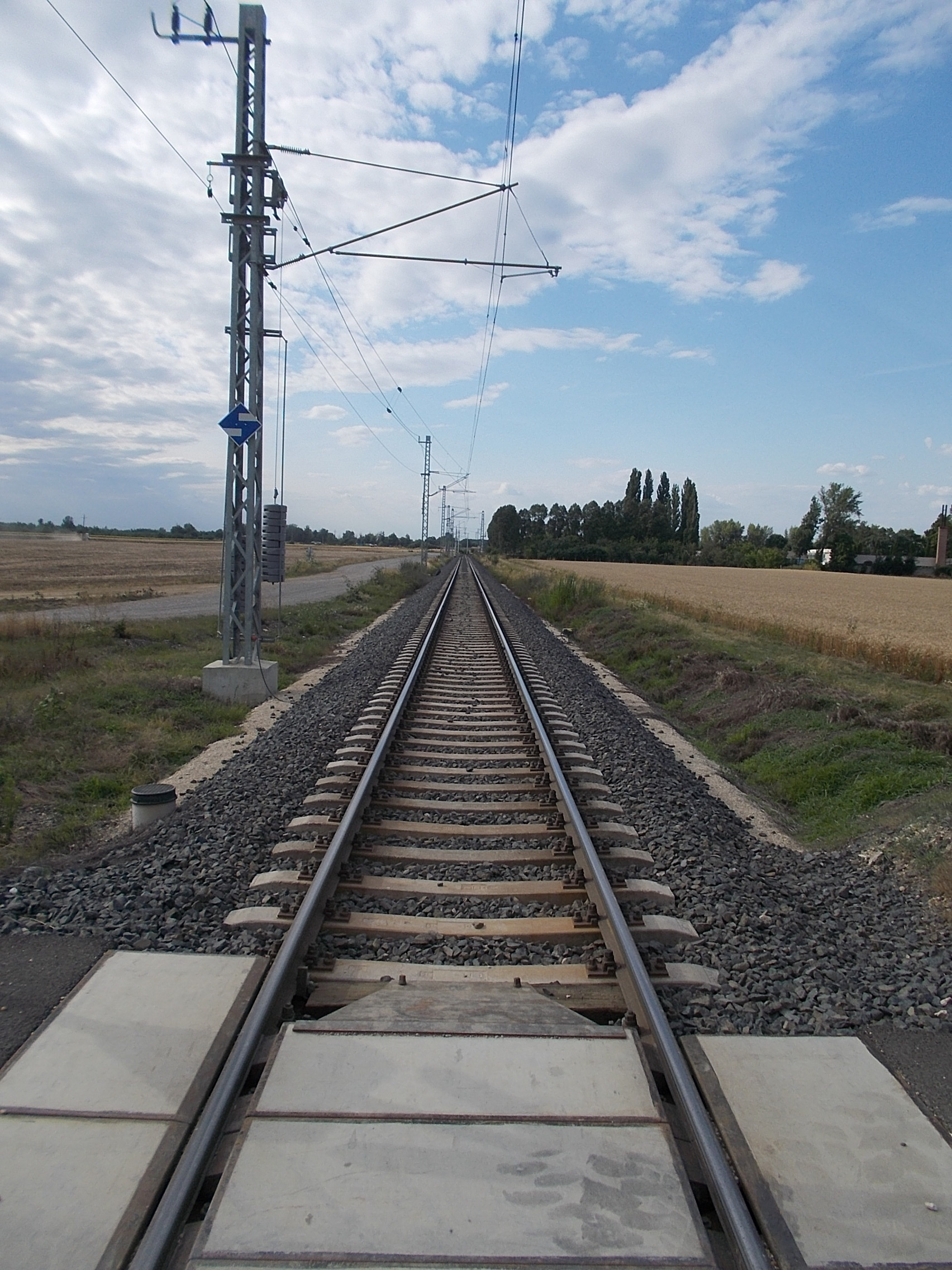 Looking to north from the Level crossing at Hegyeshalom–Szombathely railway line close to Road 86, Csorna, Győr-Moson-Sopron County, Hungary.